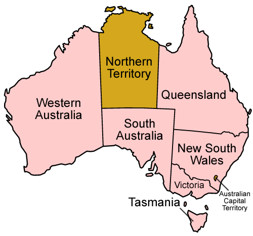 Map of the states and territories of Australia with names in English (local language). Made by User:Golbez.